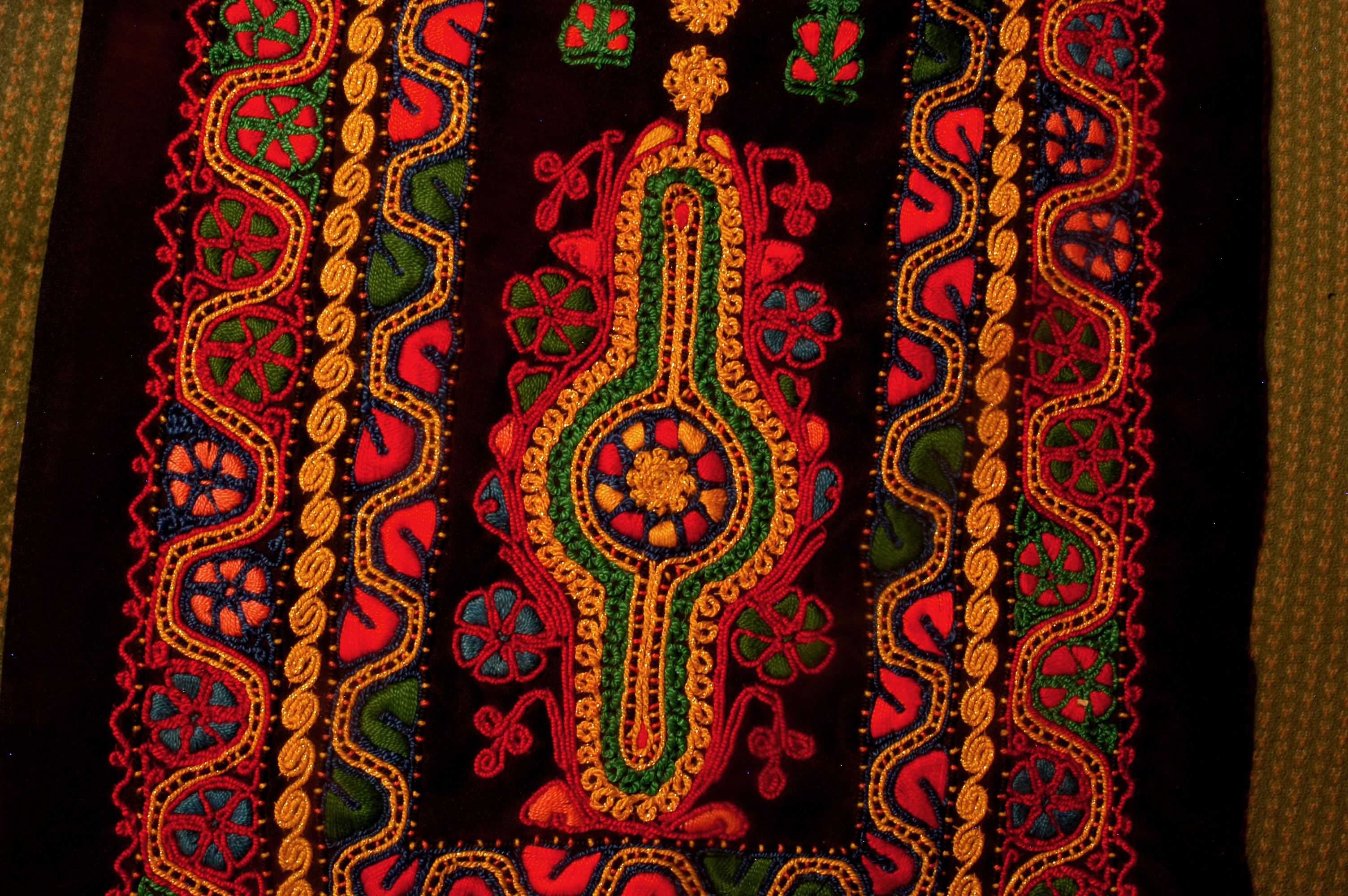 Tahriri work from Beit Jala. The work with gold cord is called qasab.Purchased 2006.